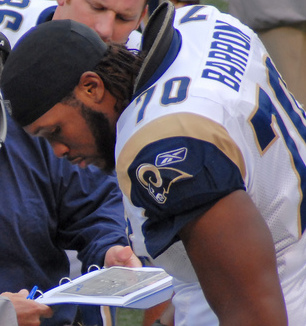 Rams players conferring with coaches, 2008